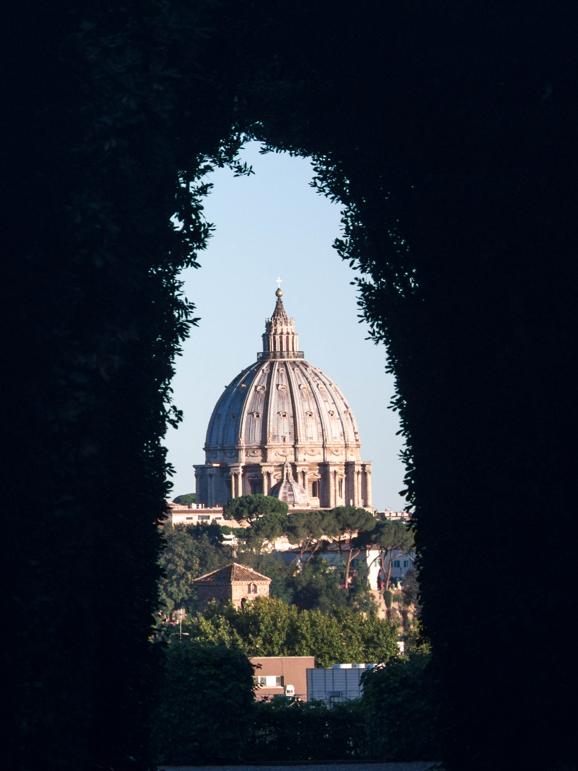 View of St. Peter through the "holy keyhole" of Santa Maria del Priorato